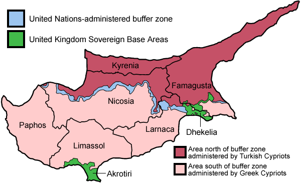 Map of the districts of Cyprus, named in English, with English annotations, and showing the Turkish Republic of Northern Cyprus, United Kingdom Sovereign Base Areas, and United Nations buffer zone. The individual maps see below.